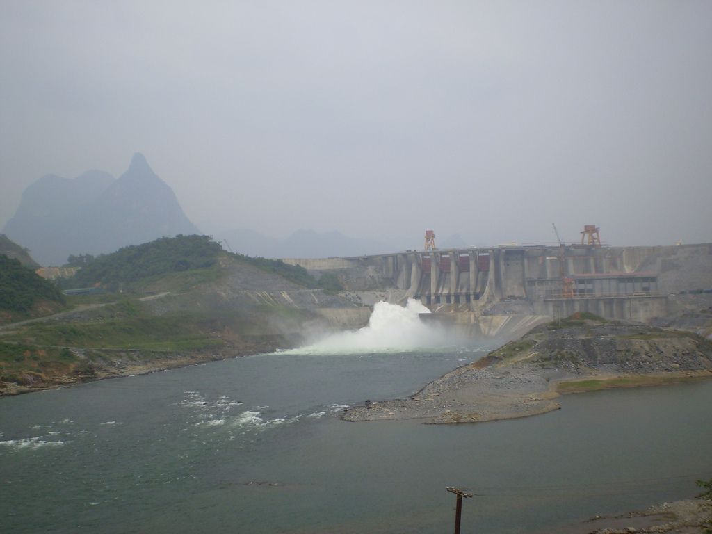 Đập thủy-điện Tuyên-quang tại huyện Nà-hang tỉnh Tuyên-quang.